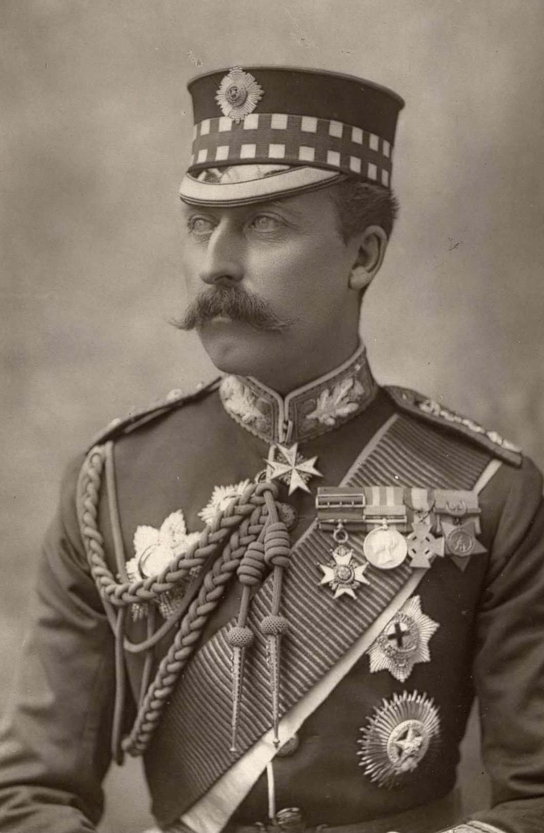 Prince Arthur Duke of Connaught